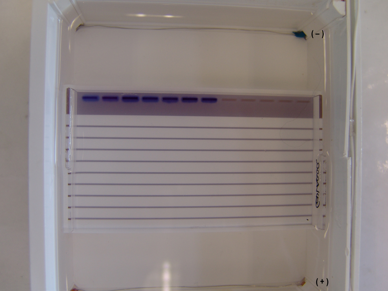 Gel electrophoresis: An agarose-gel, 7 pockets filled with DNA fragments (in blue liquid); (+) and (-) indicate the polarity of the electric field. DNA-molecules (negative charge) move towards the anode (+) with different speeds (proportional to the fragment size).